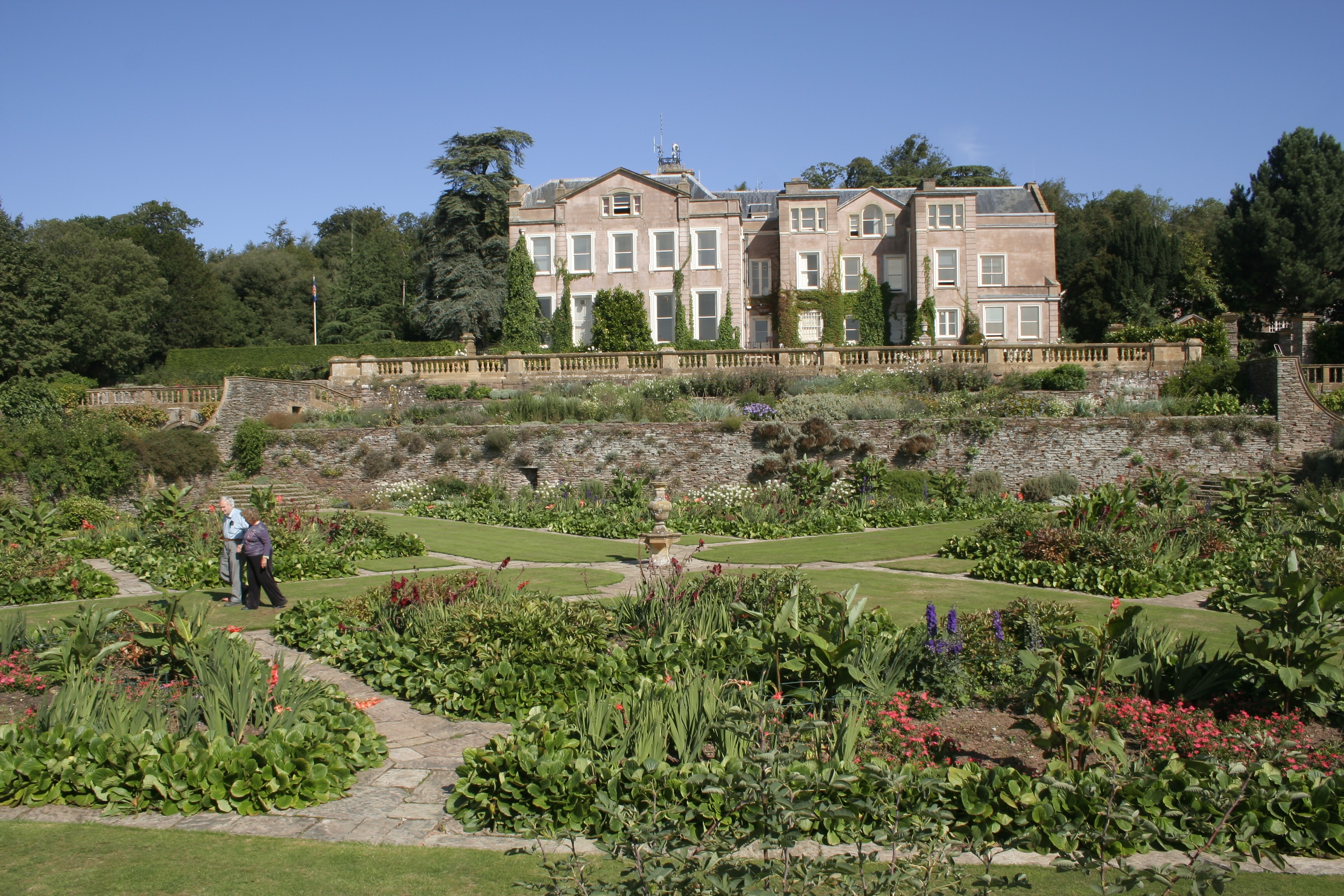 Hestercombe House and Garden